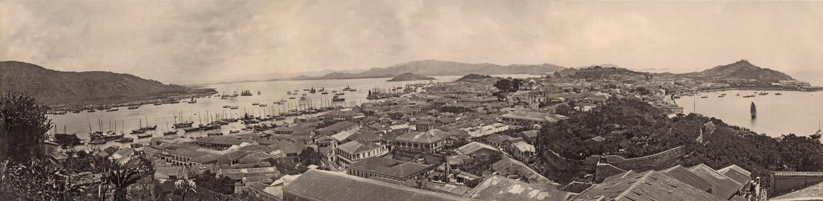 Panoramic photograph of Macau in the 1860s or early 1870s. On the photograph, the city of Macau on its peninsula with the outer and inner harbours are visible, as well as outlying islands of Macau and of China.